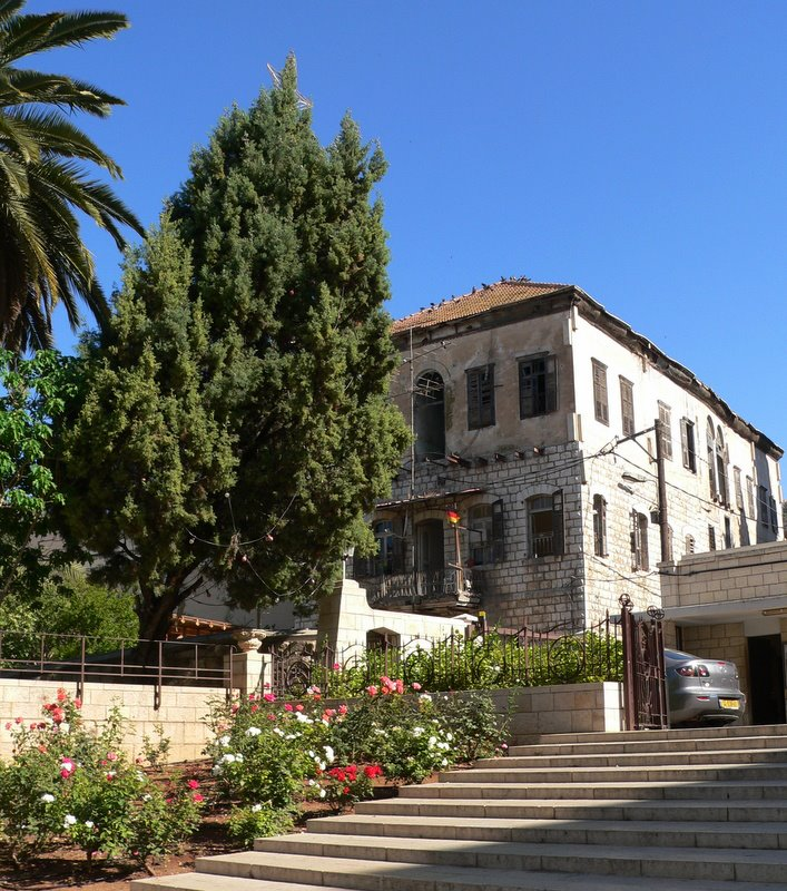 Cities in Israel